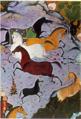 Rustam with Agvank (fragmaent). Shahnamme. Miniature from Tabriz